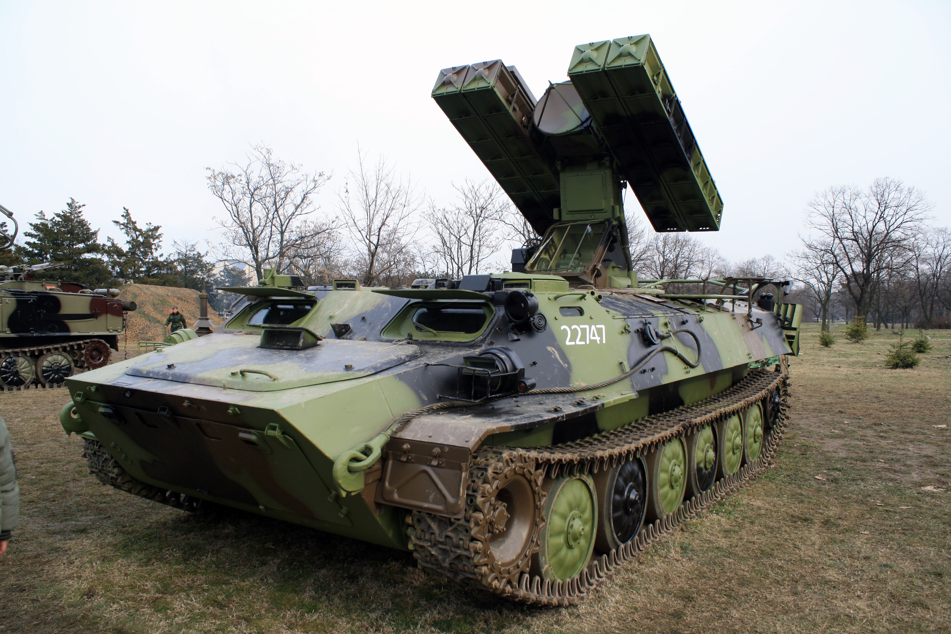 9K35 Strela-10 "SA-13 Gopher" SAM of Serbian Army on display after military exercise "Ušće 2011".